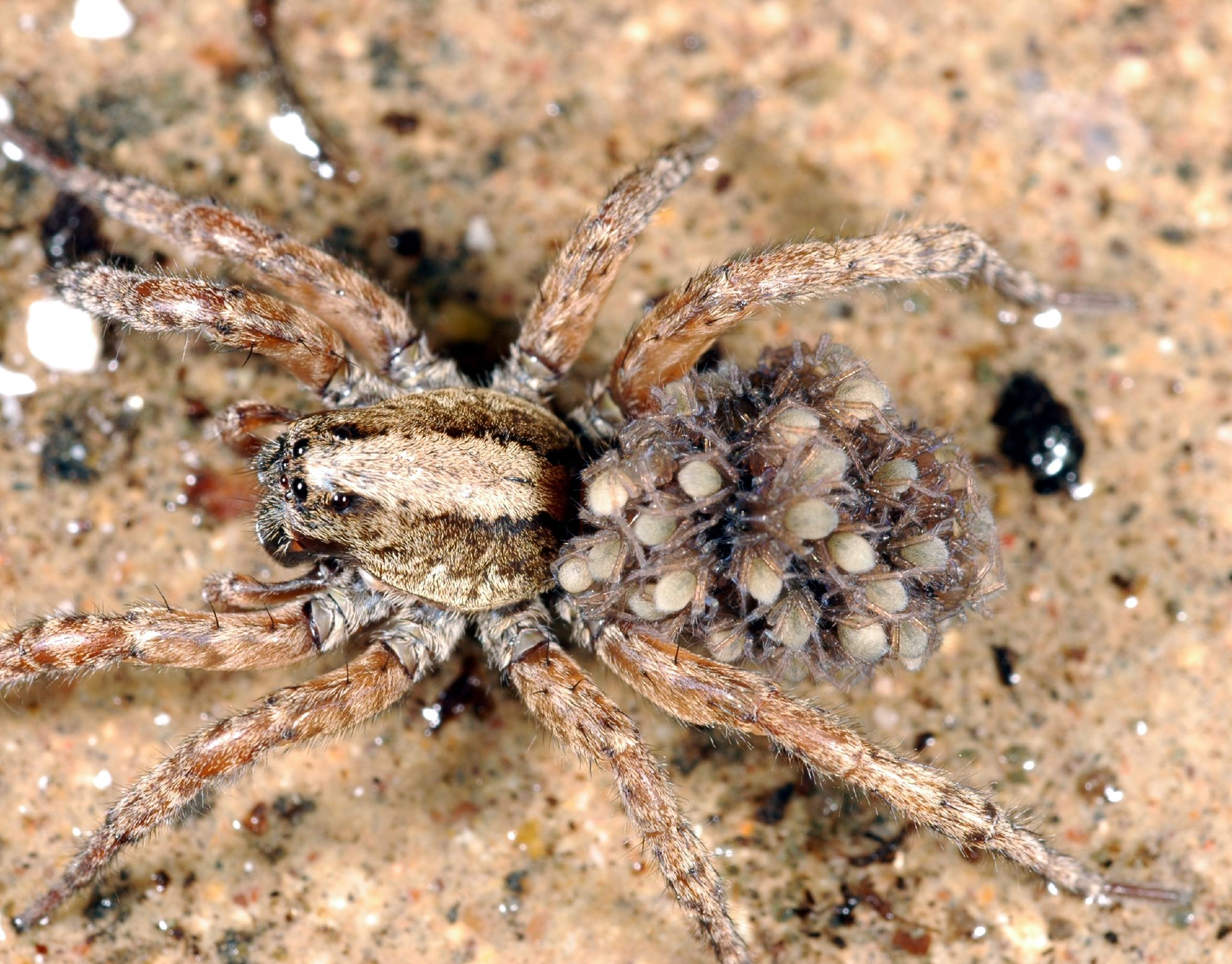 Wolf spider carrying young on back